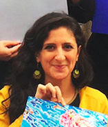 Bahia Shehab, in 2017